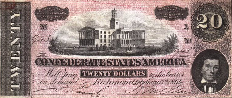 20 Dollar Confederate States of America banknote dated February 17, 1864.